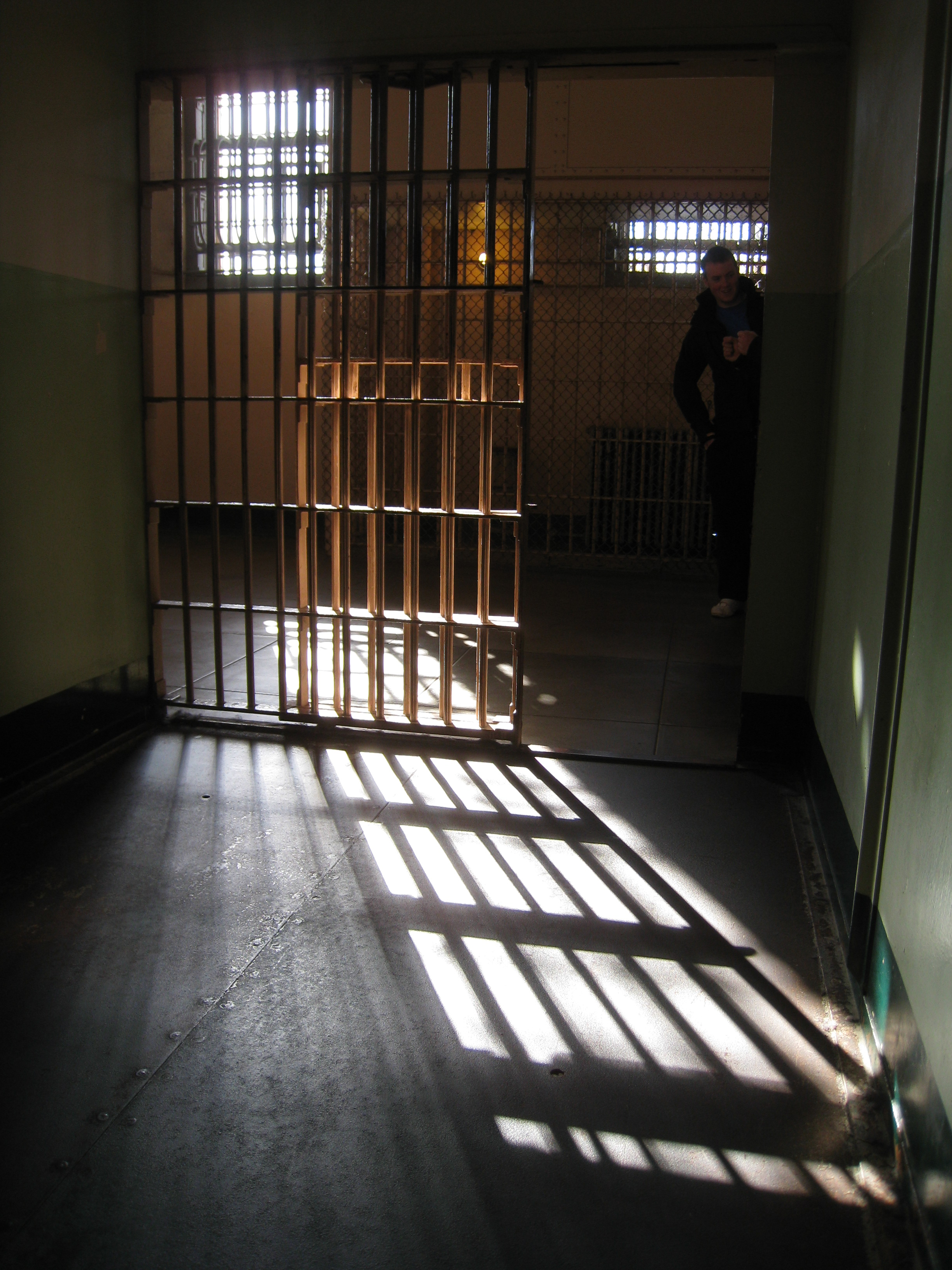 D-Block cell, Alcatraz